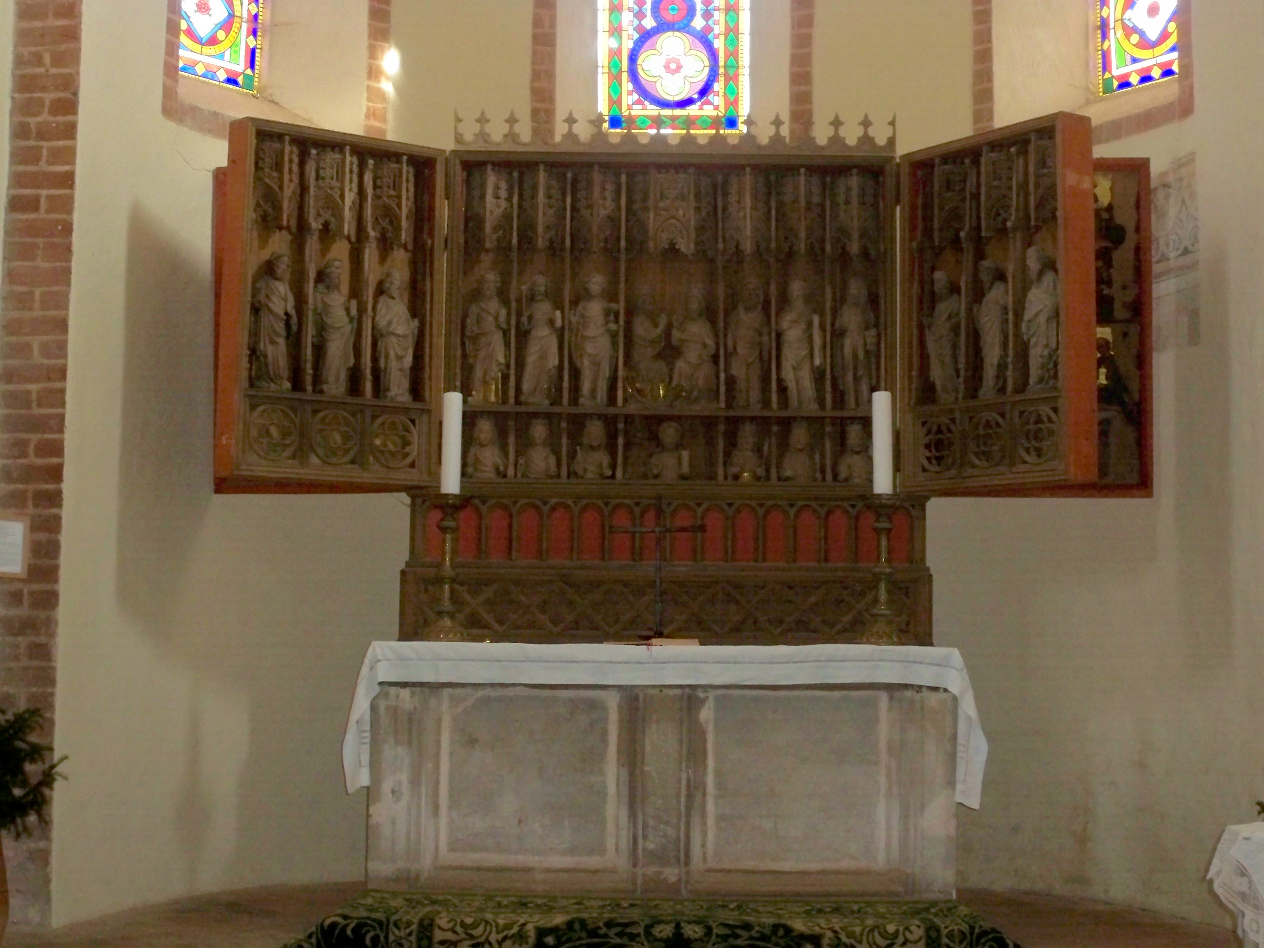 Arendsee, Saxony-Anhalt, church, altar